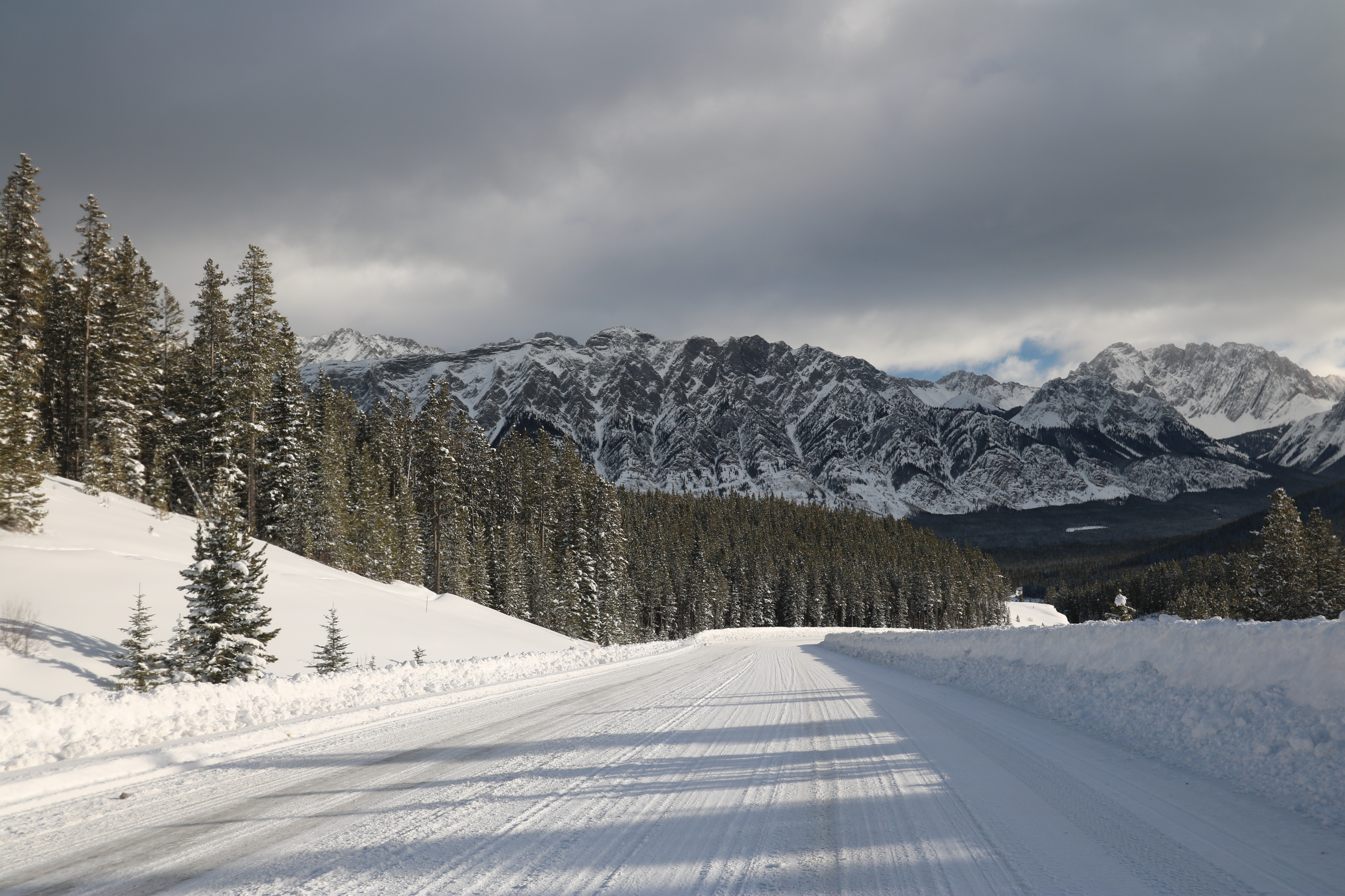 A few shots of the roads south to Peter Lockheed Park Alberta Canada